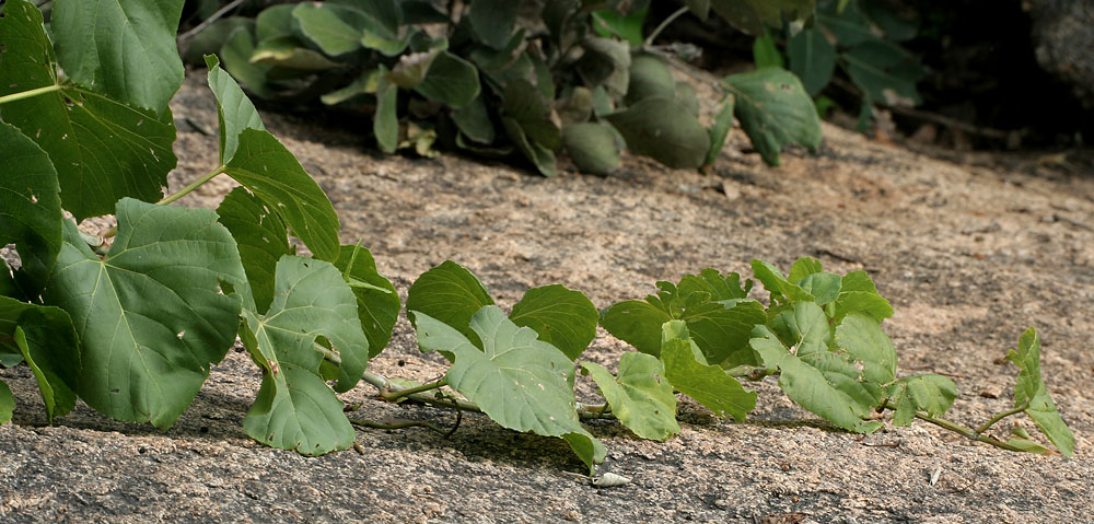 Cissus repanda (syn. Vitis repanda, Vitis pallida)- Pani Bel, Wavy-leaved Cissus • Hindi: पानी बेल Pani bel, Dekarbela • Manipuri: খোংঙৌযেন Khongngouyen • Marathi: गेंदळ Gendal • Telugu: Gummadithige, Nelaboddu, Pasupugodanithegani • Assamese: Medmedia-lop- in Keesara, Rangareddy district, Andhra Pradesh, India.